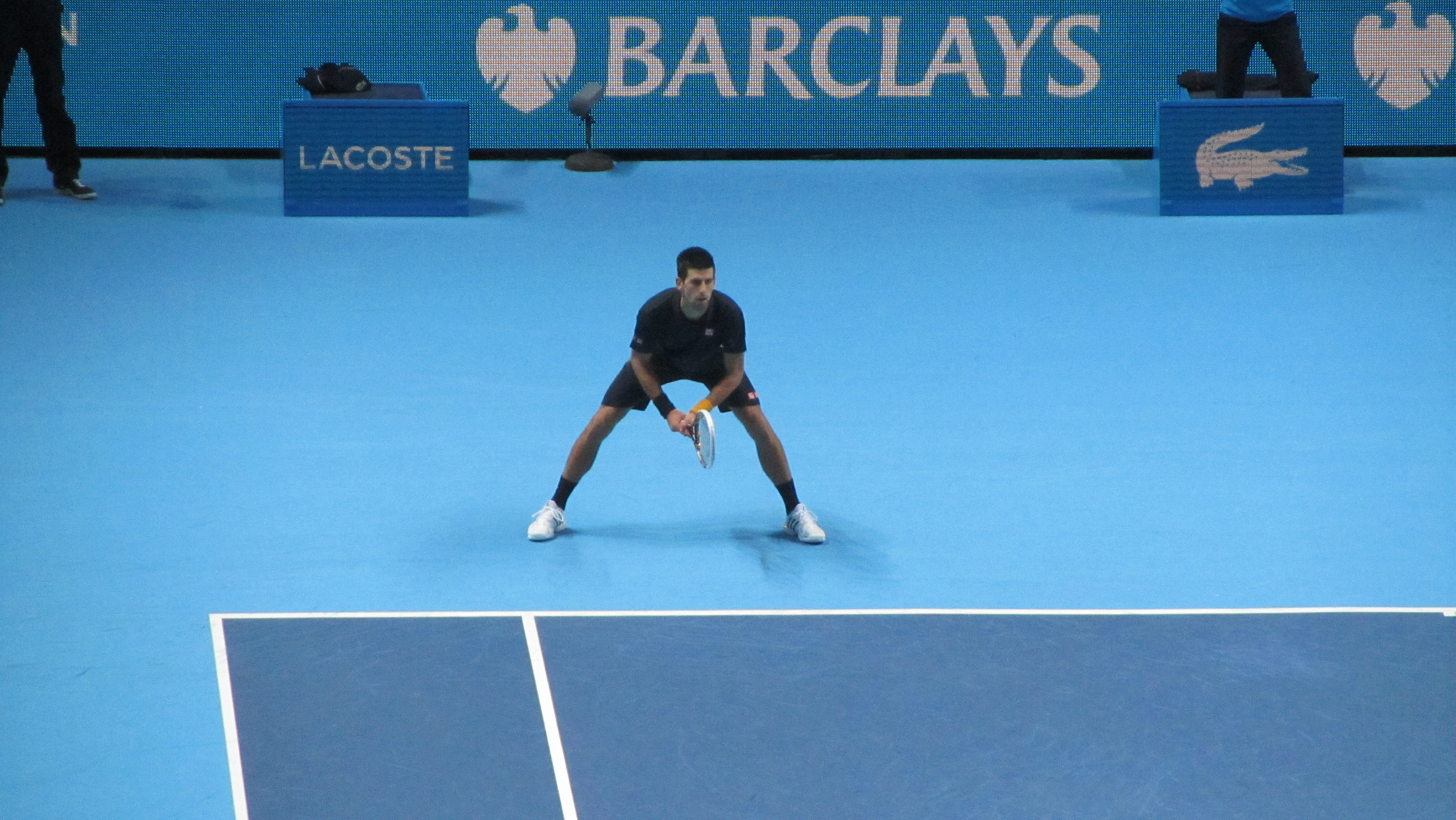 Novak Djokovic at the ATP Tennis World Finals